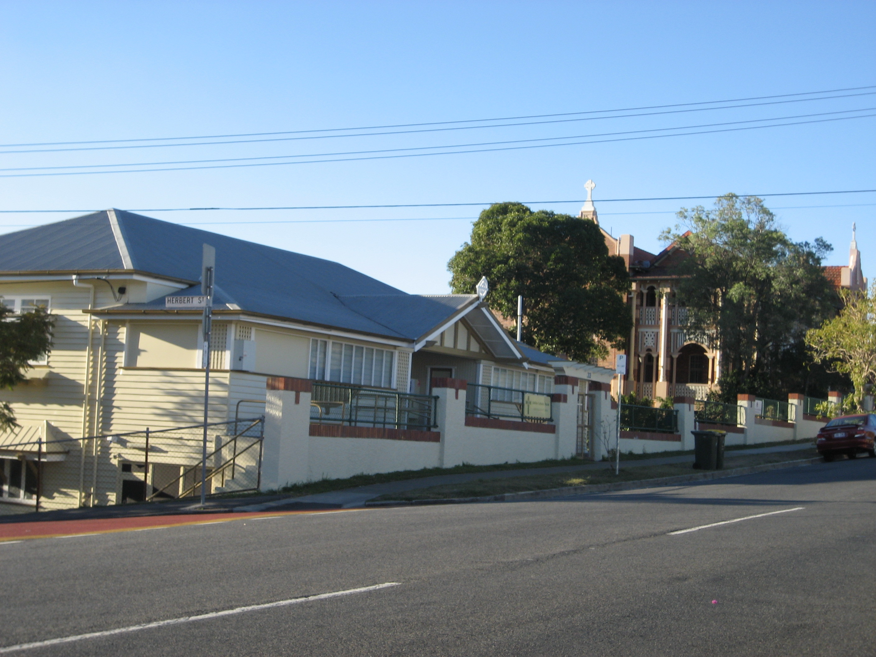 I took the photo.